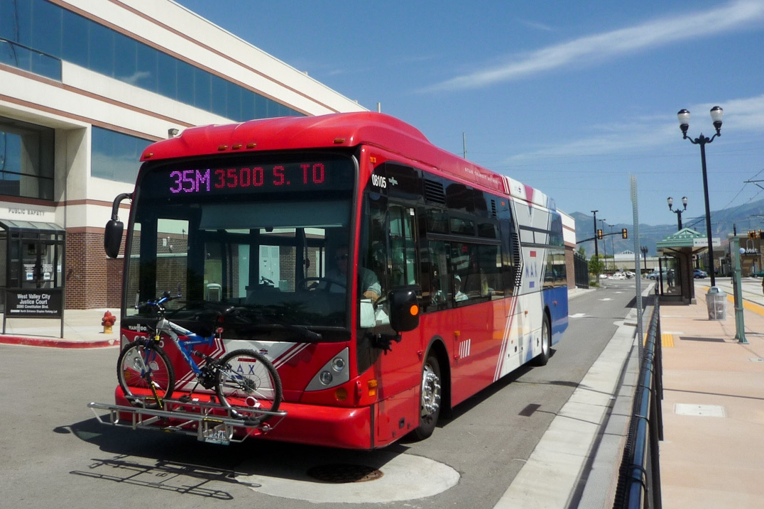 This is the MAX, the Utah Transit Authority's bus rapid transit route. So far, there is only one MAX route—the 35M—that travels from Magna to the Millcreek TRAX station. This is the bus at the West Valley Central Green Line station.